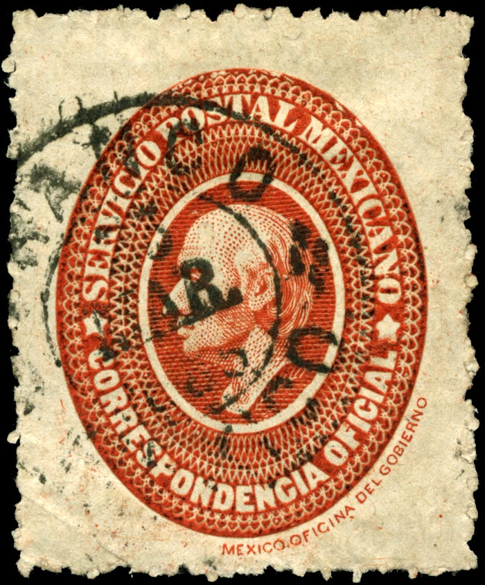 Mexico red official stamp of 1884